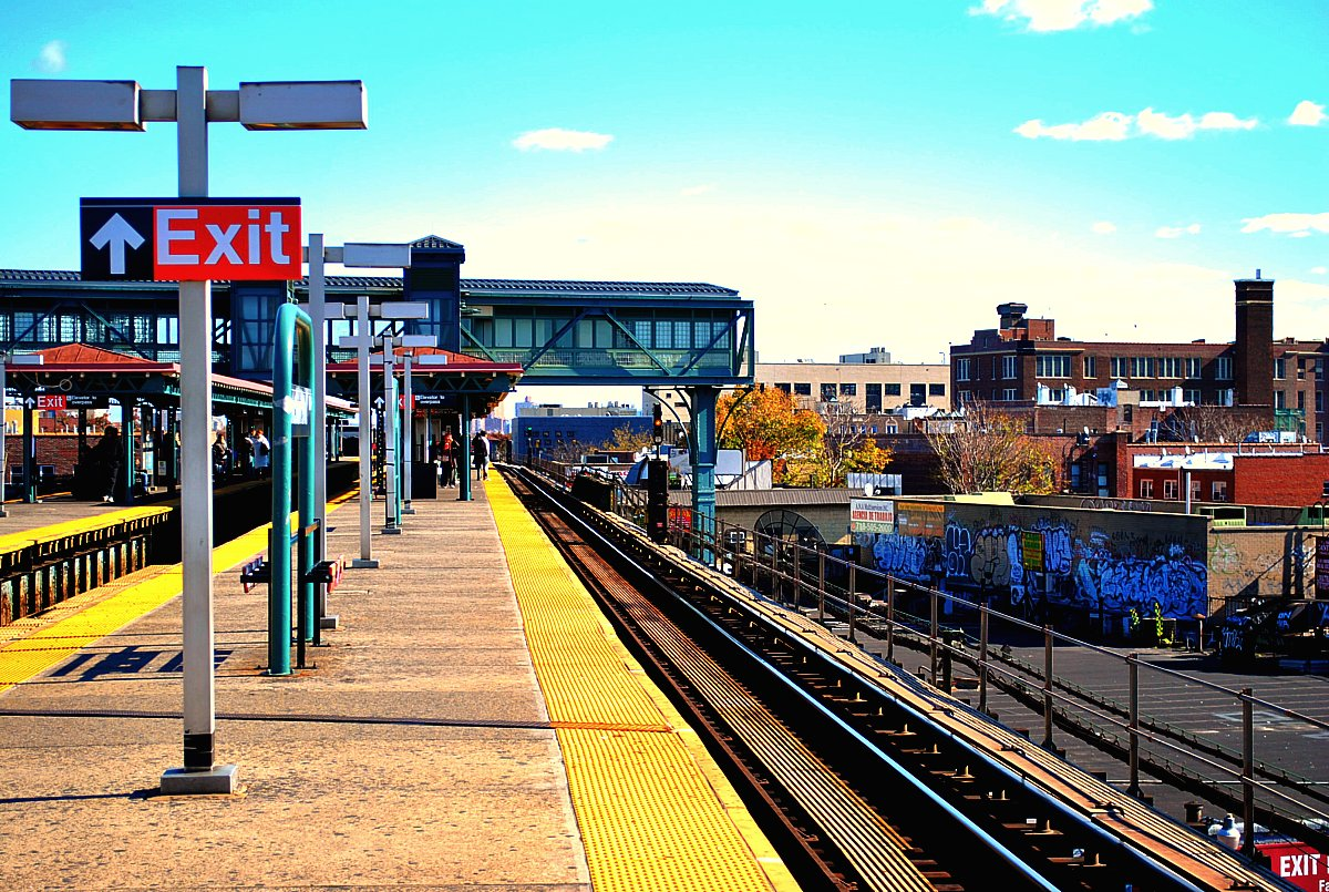 Junction Blvd. Station - 7 Train Flushing Line